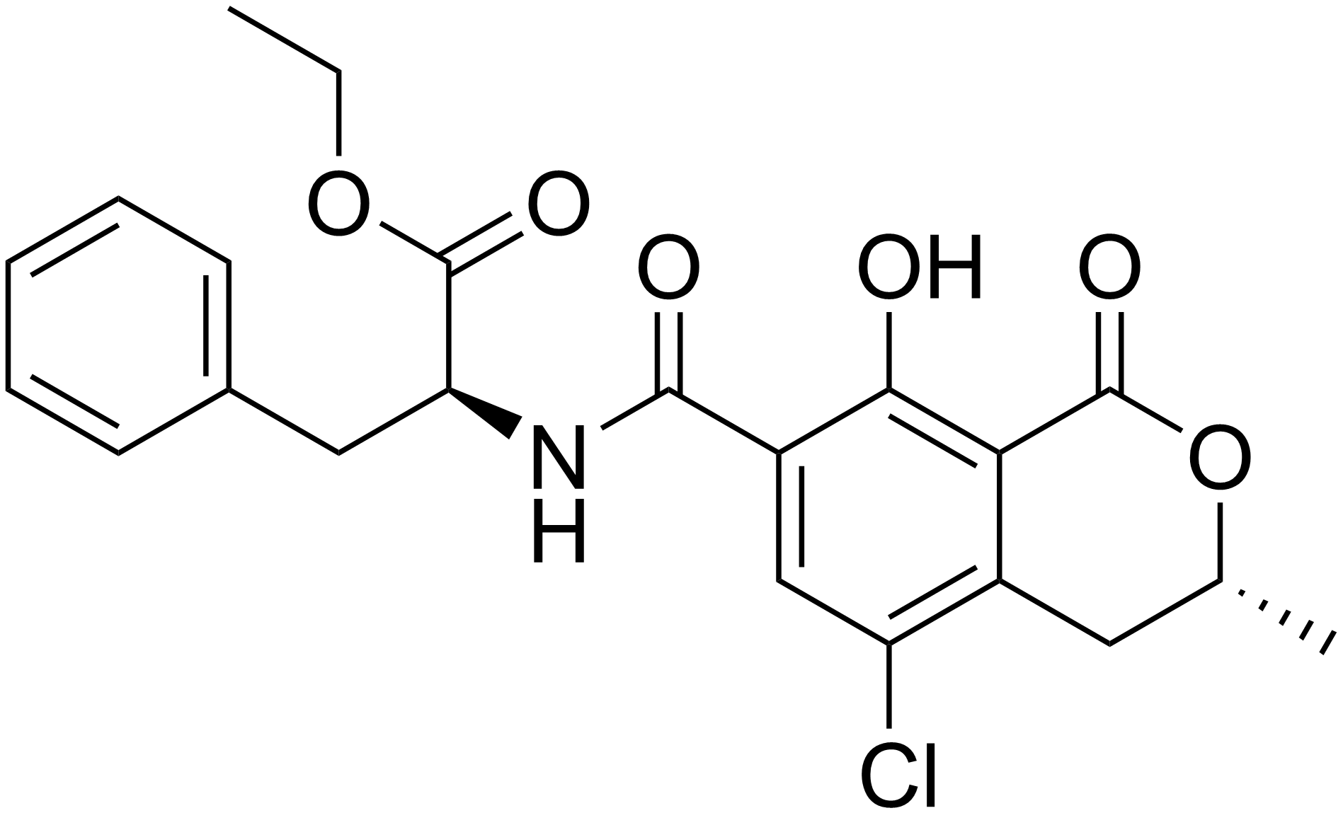 chemical structure of the mycotoxin ochratoxin C